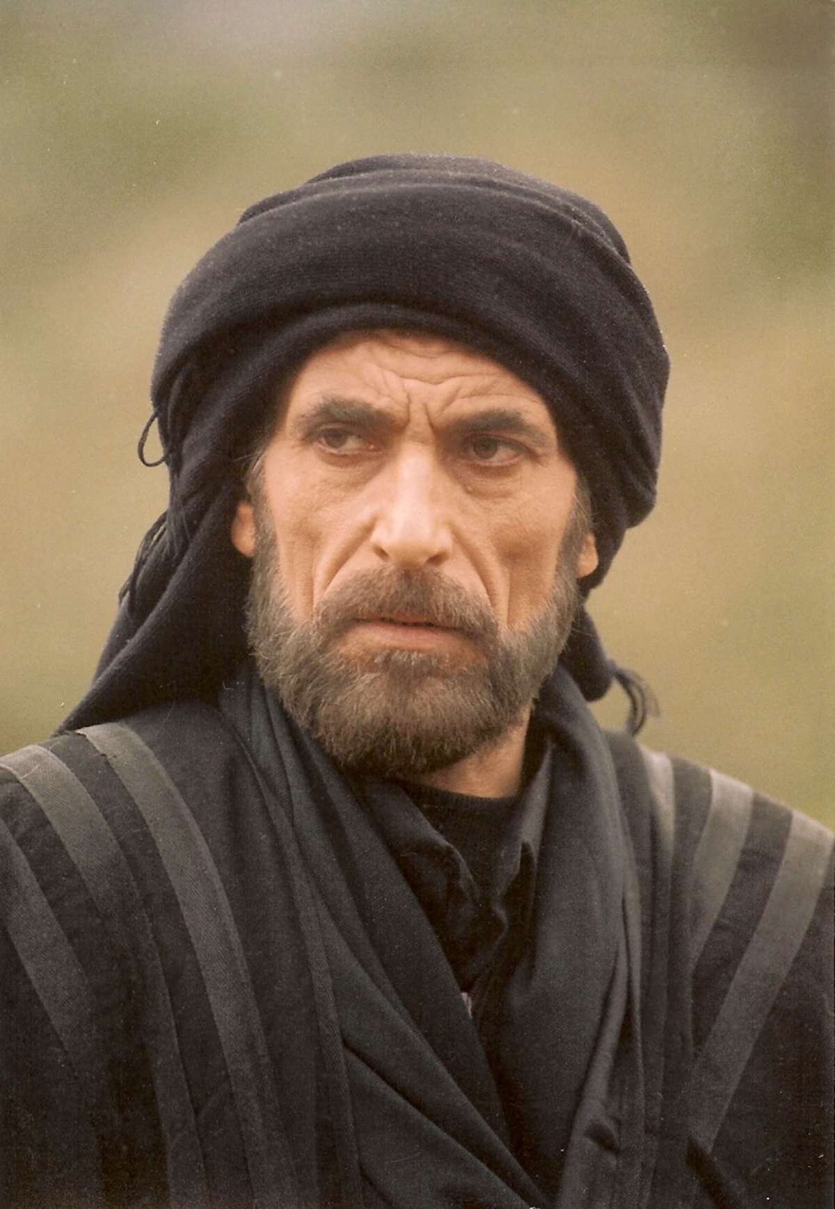 Portrait of Ghassan Massoud - Syrian Actor in the Drama series - Unshoodat Al Matar - He also acted in the Movie Kingdom of Heaven as Salahaddin.